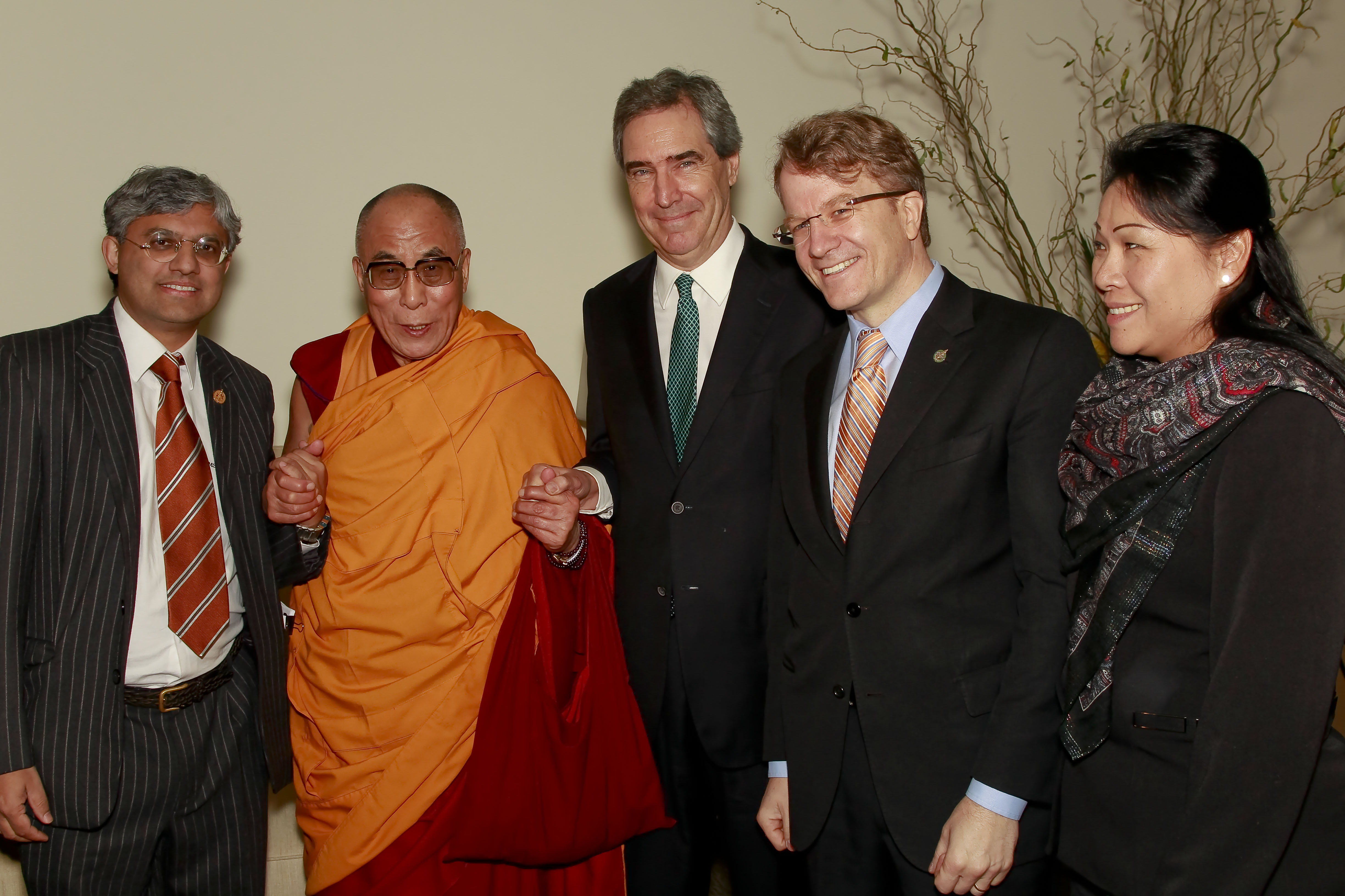 Visit by the Dalai Lama to the Tibetan Canadian Cultural Centre in Etobicoke (Toronto, Canmada). From left to right, starting at second left: Dalai Lama, Michael Ignatieff, Gerard Kennedy.